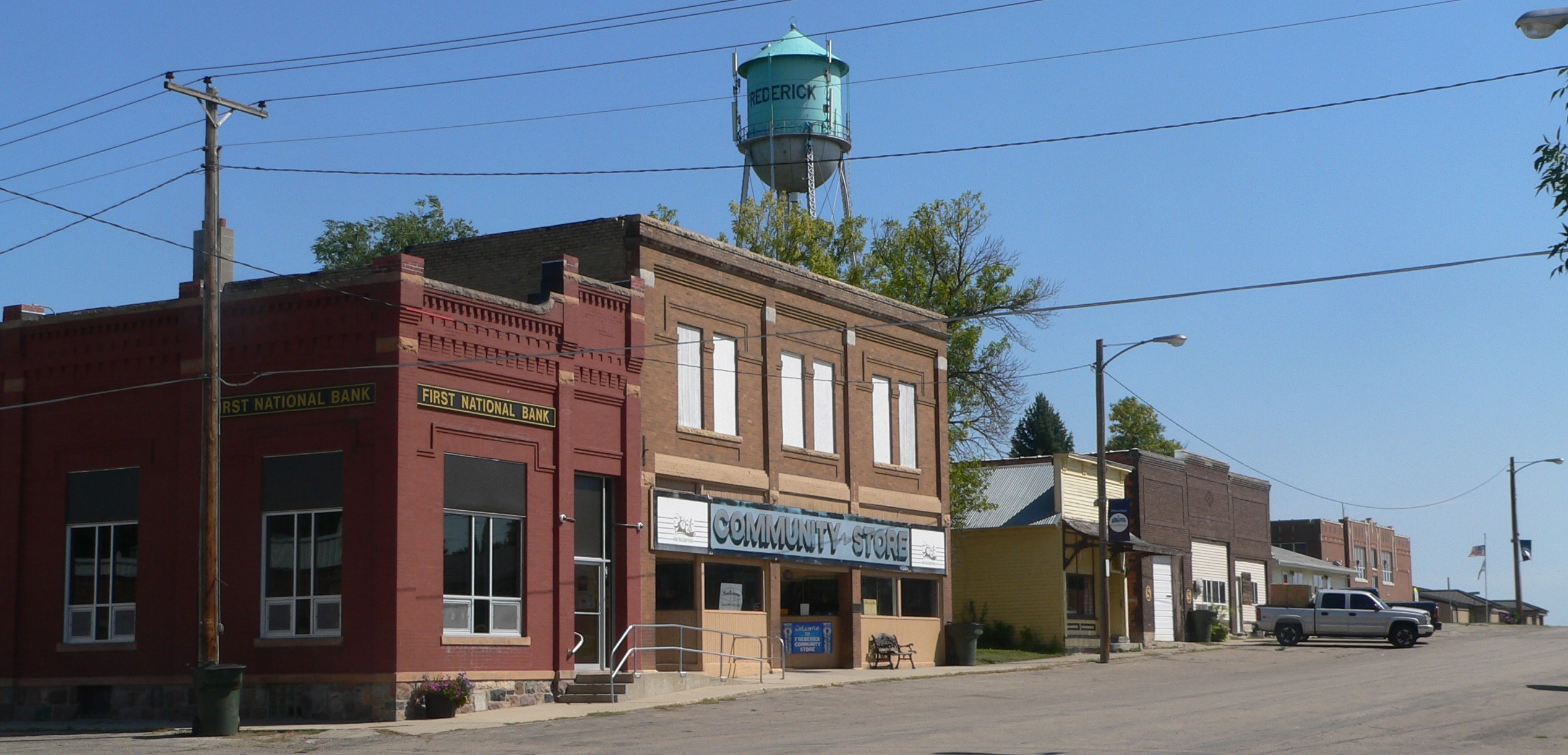 Downtown Frederick, South Dakota: north side of Main Street, looking northeast from 3rd Avenue.